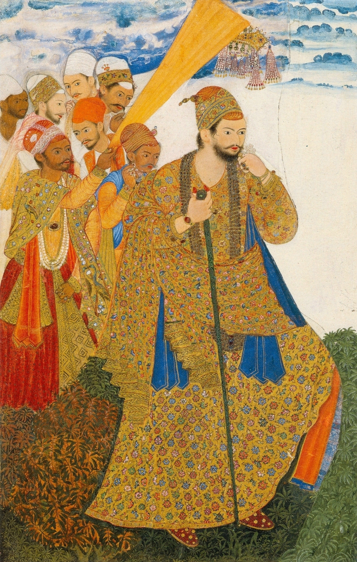 Procession of Sultan Ibrahim 'Adil Shah II by Bikaner Painter, ca 1595, Private collection